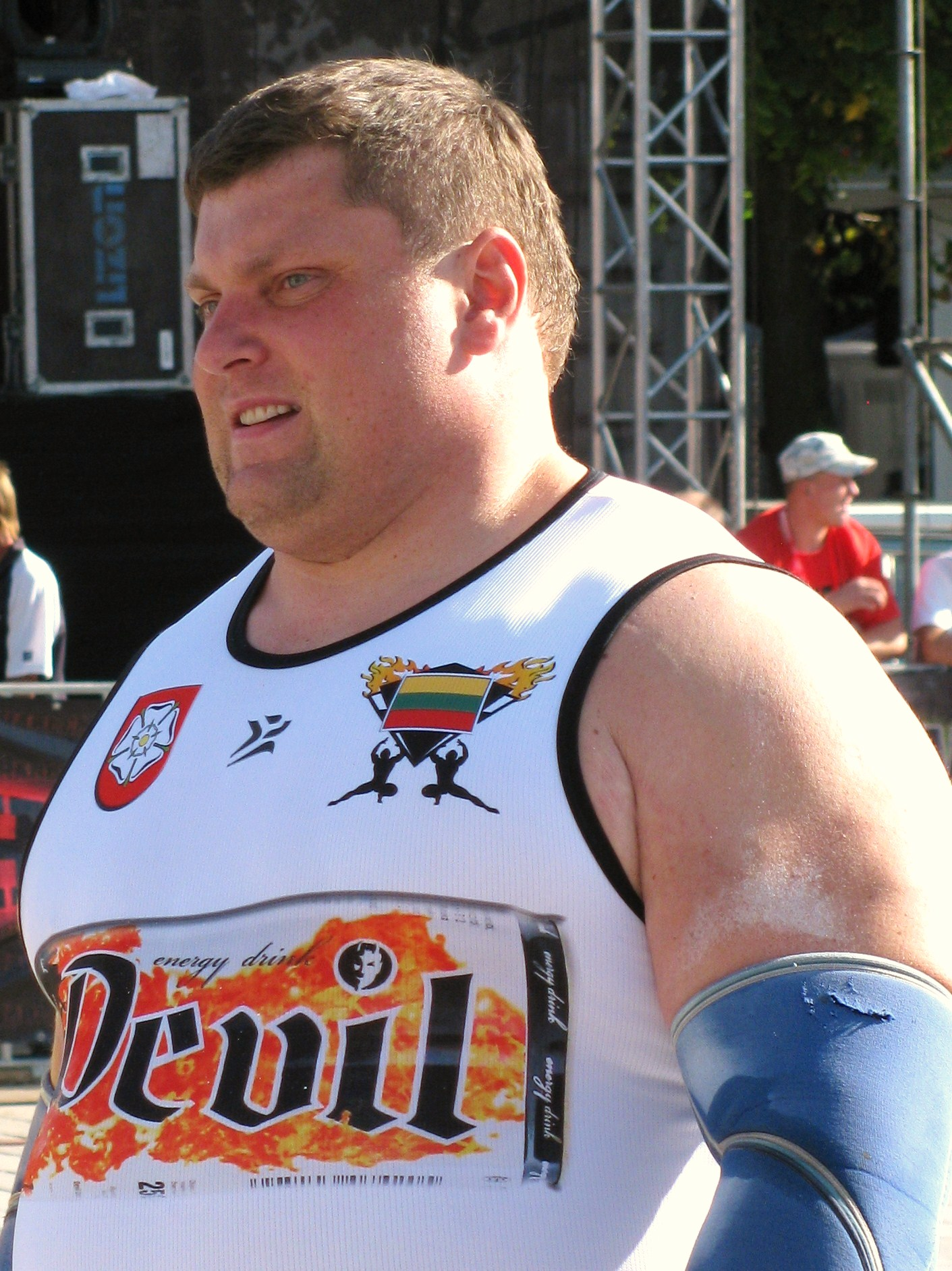 Žydrūnas Savickas - the Champion.